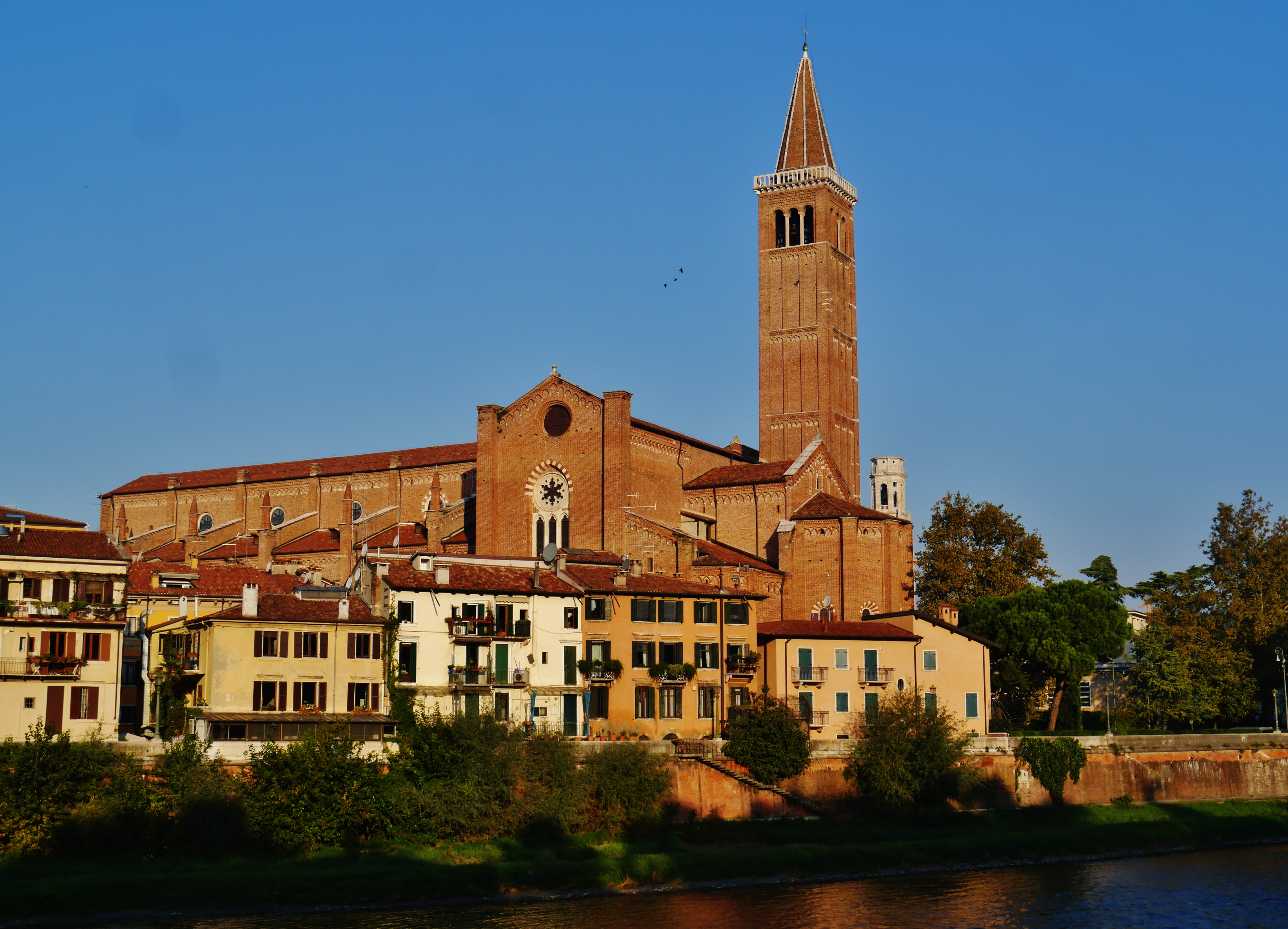 Church of St. Anastasia, Verona, Province of Verona, Region of Veneto, Italy